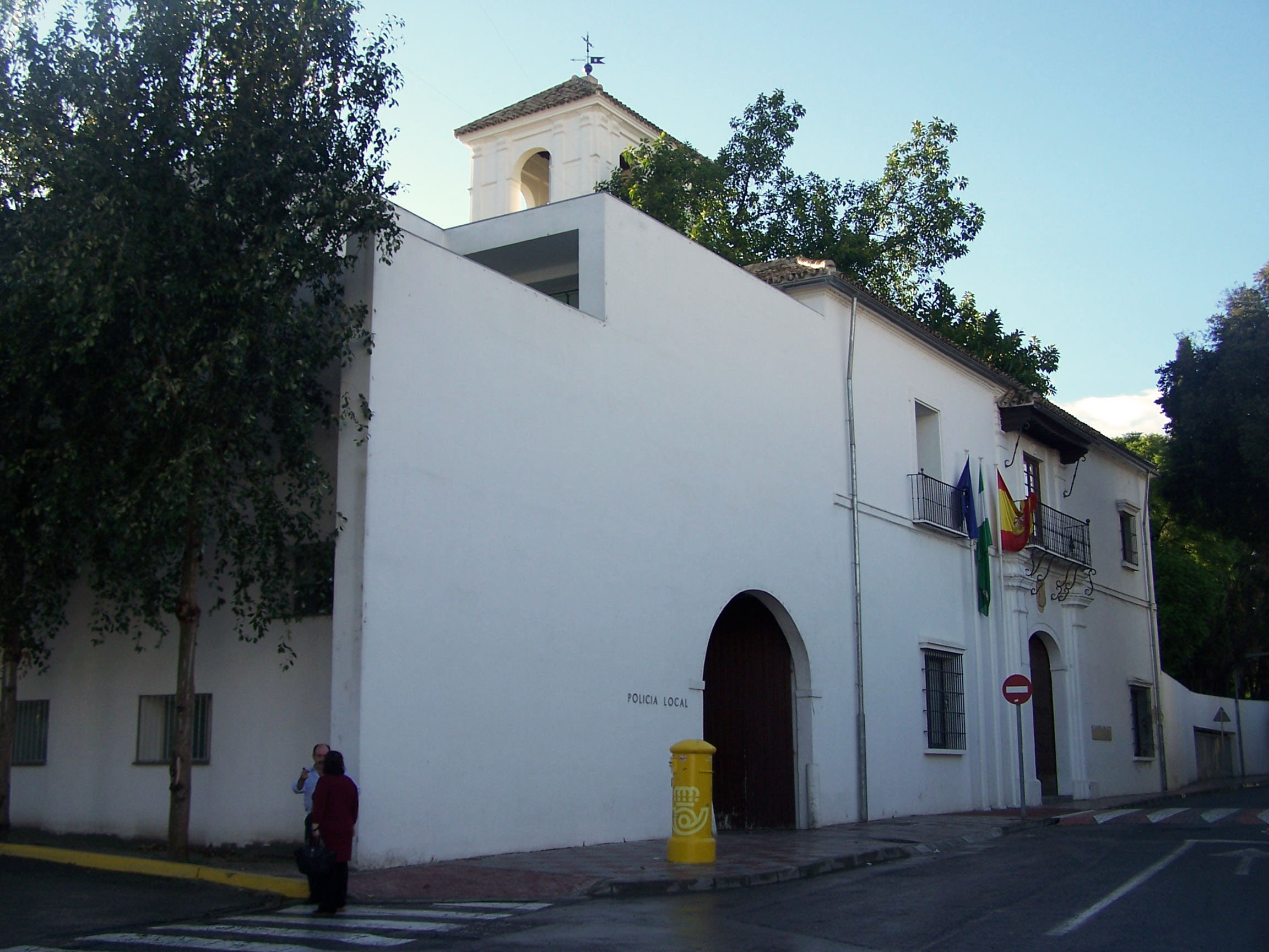 Ayuntamiento de Tomares